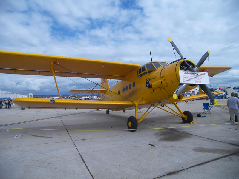 AN-2 Antonov Colt. My own work.